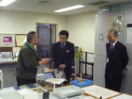 Yukio Edano, Minister of State for Government Revitalization, inspected the National Archives of Japan in Chiyoda Ward, Tōkyō Metropolis on April 2, 2010.